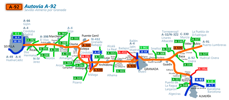 Map of A-92 Andalucia